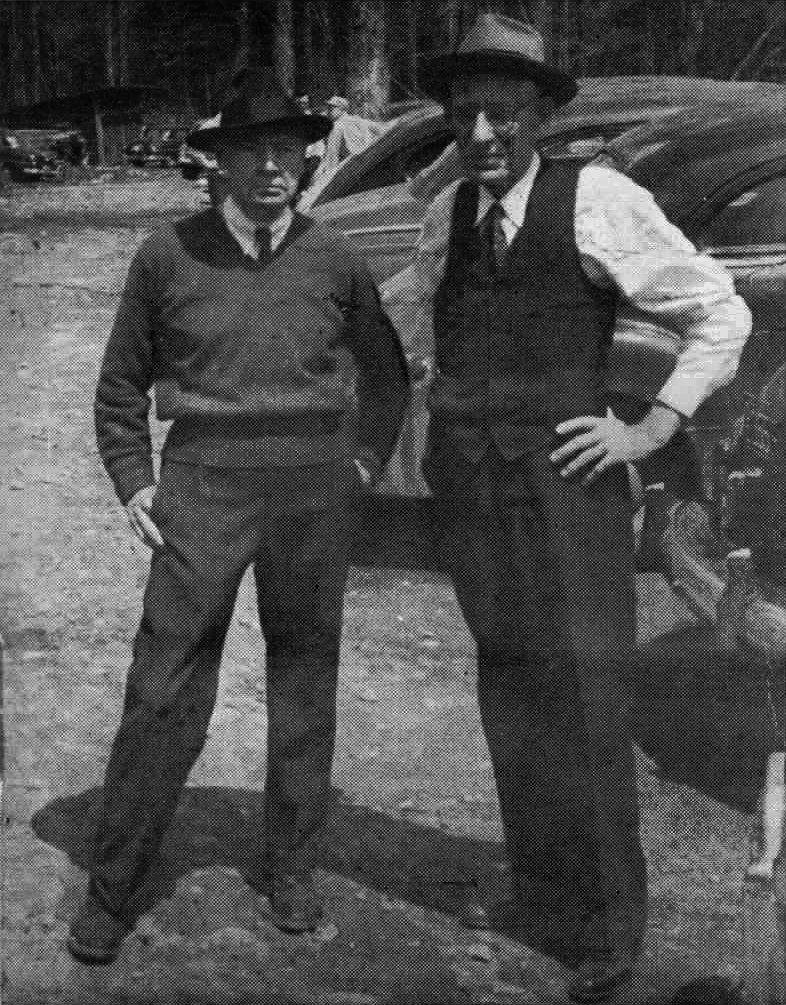 William Robinson Brown of New Hampshire, in early to mid 1900s.